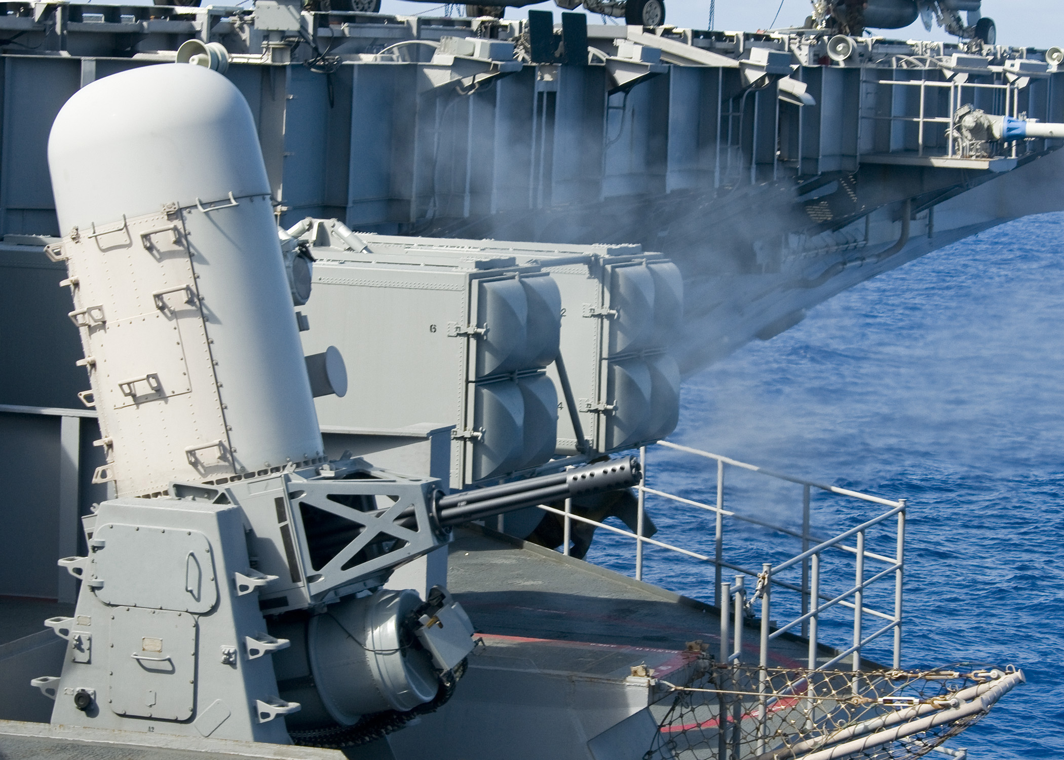 PACIFIC OCEAN (June 29, 2010) The aircraft carrier USS George Washington (CVN 73) conducts a live-fire exercise of its Phalanx Close-In Weapons System (CIWS). George Washington conducted the exercise as a part of a preventive maintenance check for the CIWS. George Washington is underway in the western Pacific Ocean. (U.S. Navy photo by Mass Communication Specialist Seaman Apprentice Justin E. Yarborough/Released)